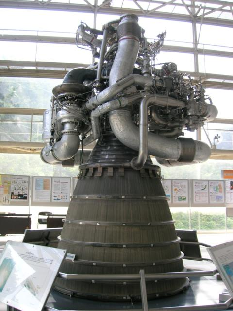 LE-7 - Japanese liquid rocket engine. Loc: Nagoya_City_Science_Museum, Naka-ku, Nagoya city, Aichi Prefecture, Japan. LE-7 撮影場所 愛知県名古屋市中区・名古屋市科学館